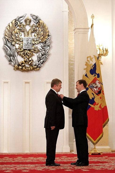 Dmitry Medvedev and Valentin Parmon at State Prize of the Russian Federation awarding